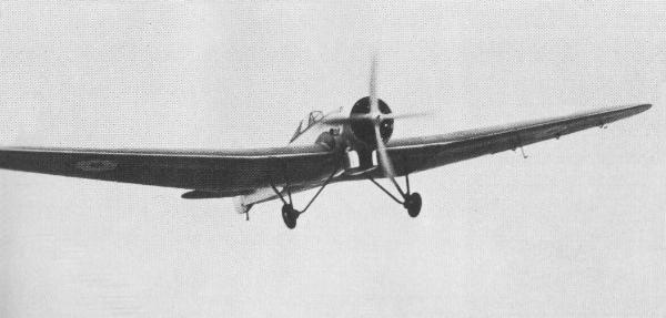 Original photograph taken by an employee of the British government. Image found on